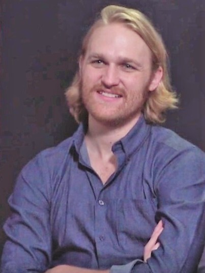 James Gilmore interviews actor Wyatt Russell and director Julius Avery about Overlord.